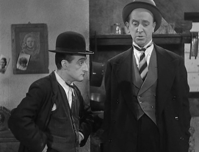 Totò and Franco Coop in a scene of the film Fermo con le mani